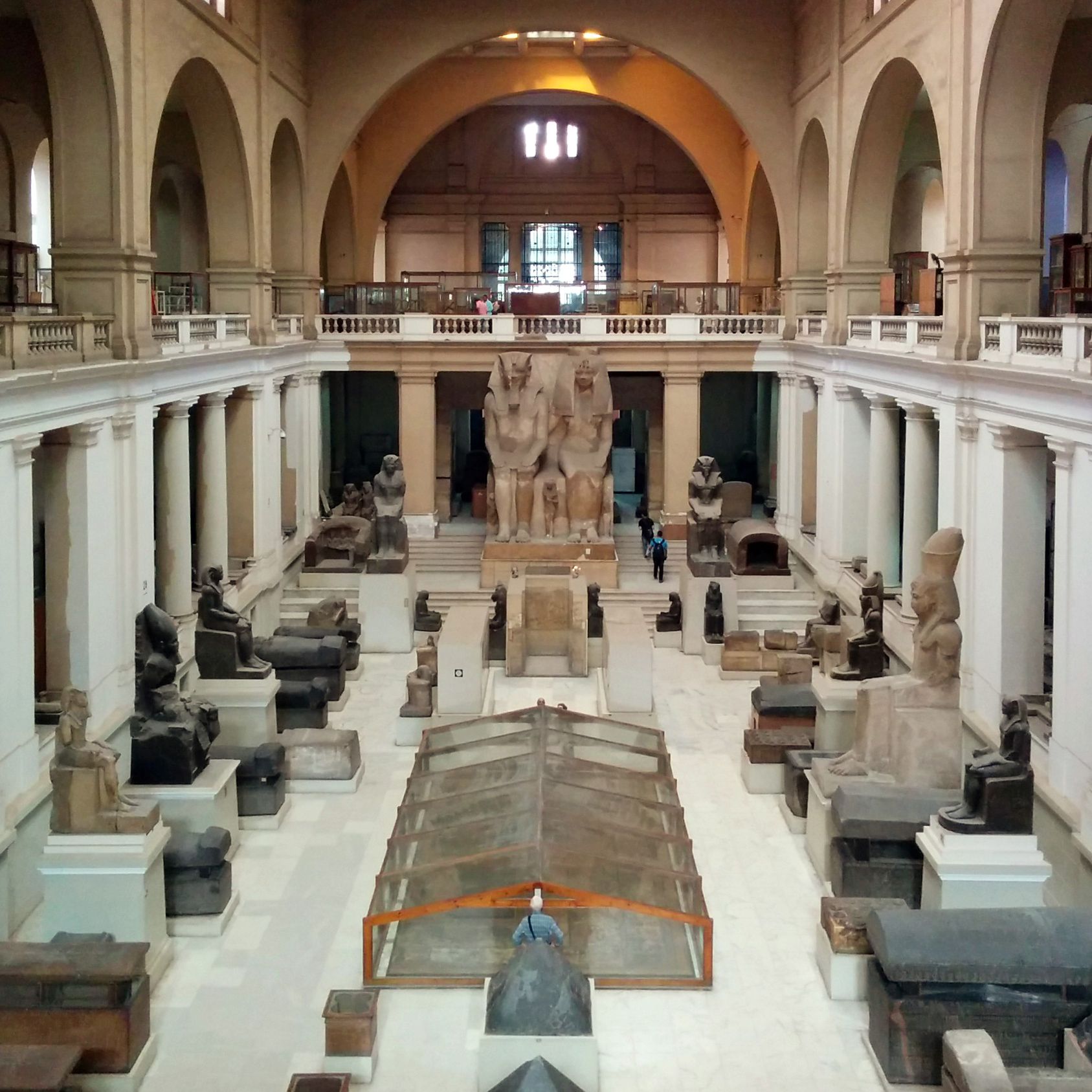 Egyptian Museum (Cairo)